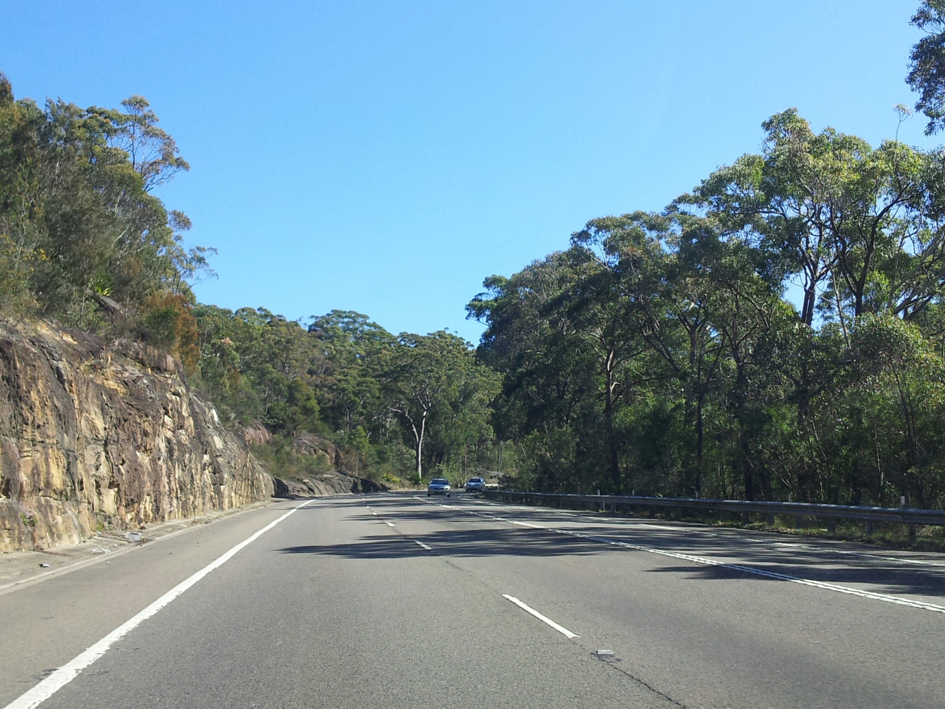 Lucas Heights NSW 2234, Australia